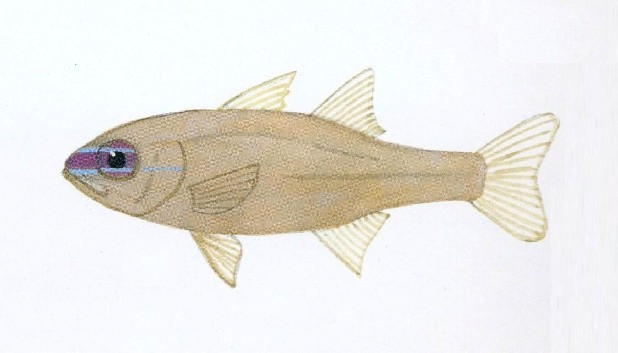 Apogon apogonoides. Tempera on paper